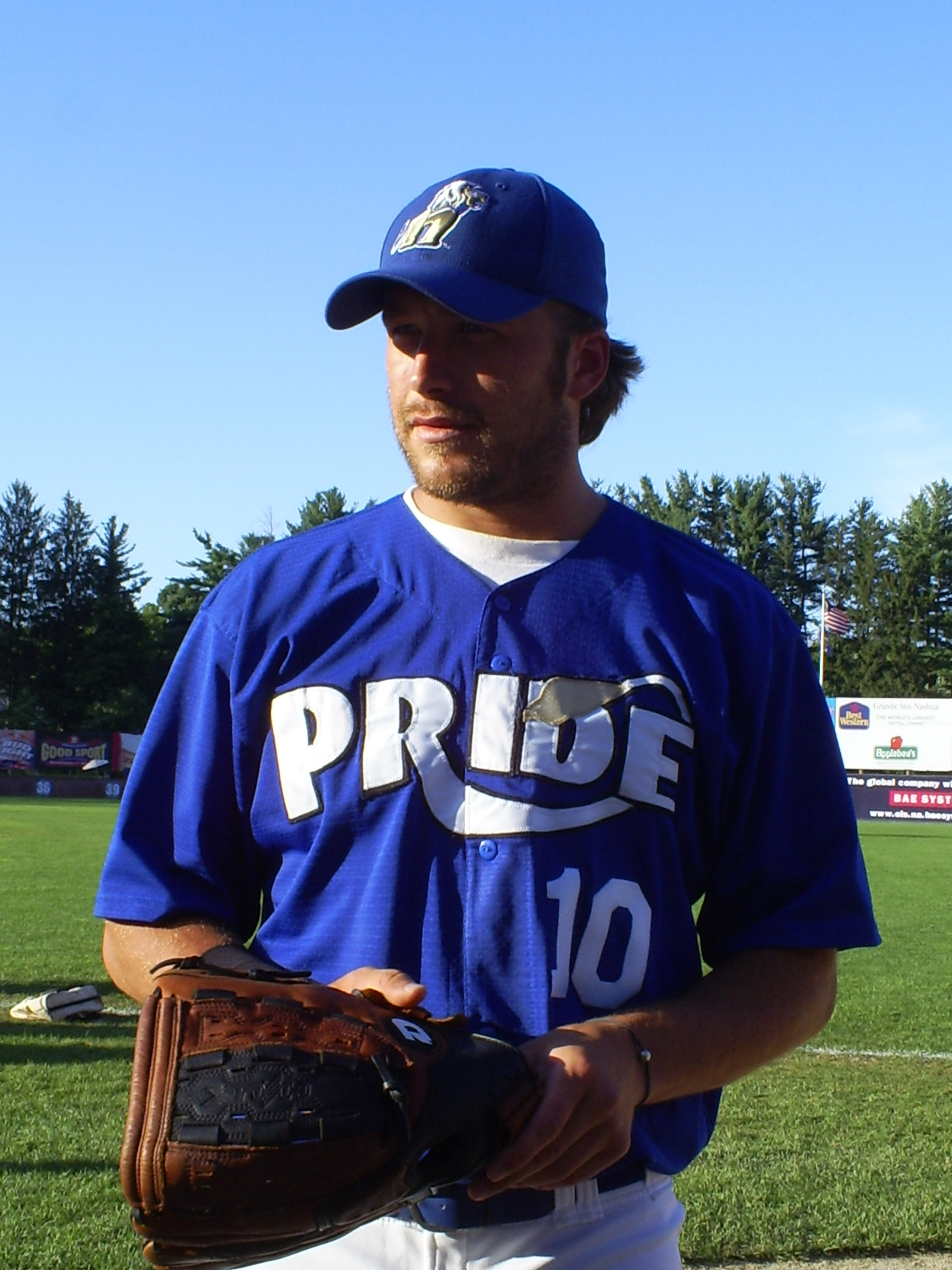 Photo by Craig Michaud. This was taken while Bode was playing for the Nashua Pride. He signed a one game contract to play. 02:15, 9 February 2009 . . Thebudman623 . . 1,920×2,560 (2.05 MB)